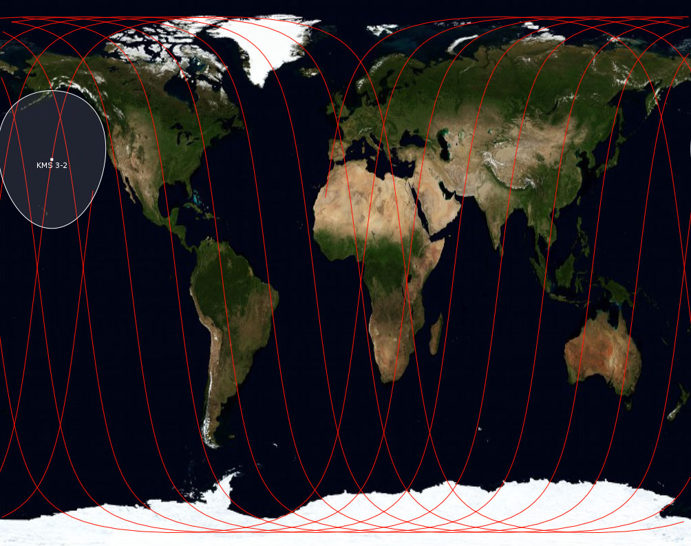 Ground track of satellite North Korean satellite Kwangmyŏngsŏng-3 Unit 2. Made from US government TLE data by GPLed program gpredict which plots the ground track over an public domain map of the world which originates from NASA. TLE from December 2012.